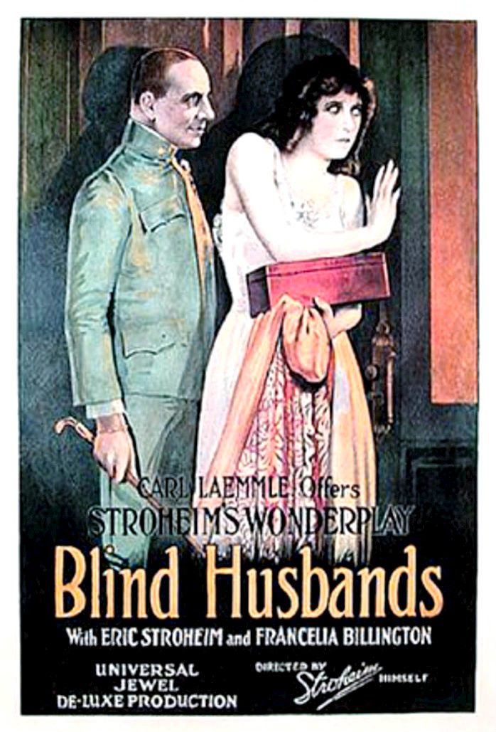 Film poster for Blind Husbands (1919).